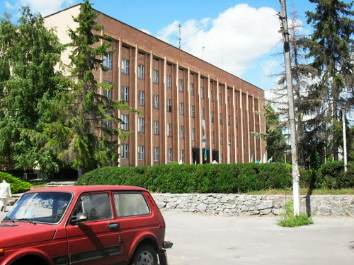 Семенівська районна рада